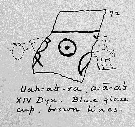 Drawing of a faience fragment with the partial cartouche of pharaoh Wahibre Ibiaw of the 13th Dynasty, found at Lahun by Flinders Petrie and now at the Petrie Museum, London (acc. no. UC16056).